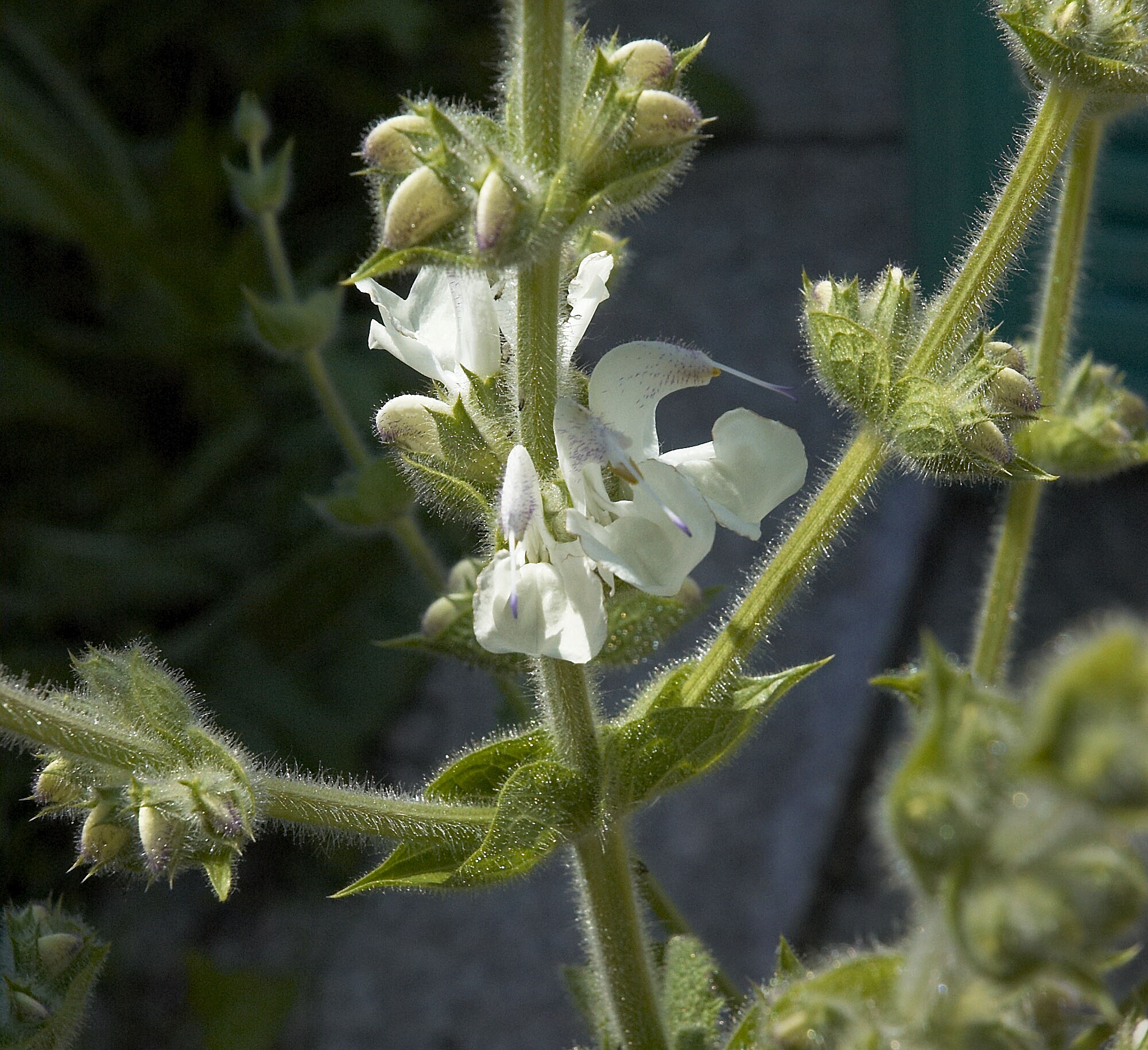 Silver Clary also known as Silver Sage